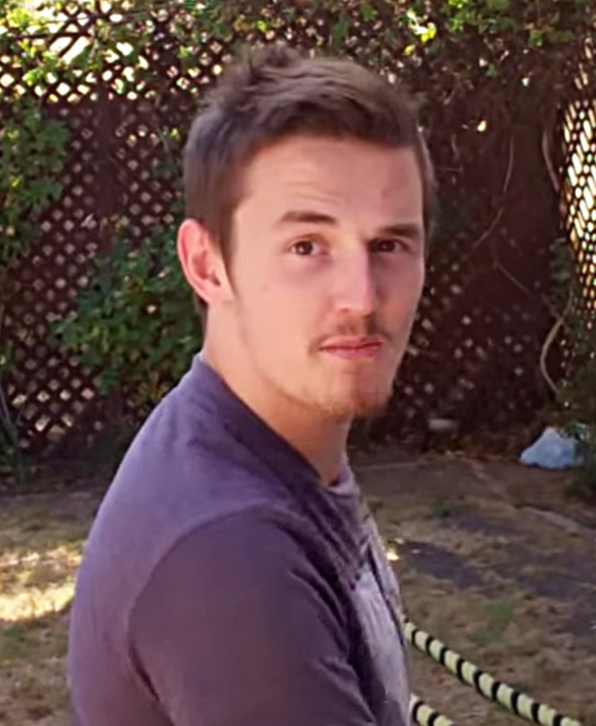 Screenshot of Tom Cassell from a video by Muzzafuzza on YouTube at around 2:09.